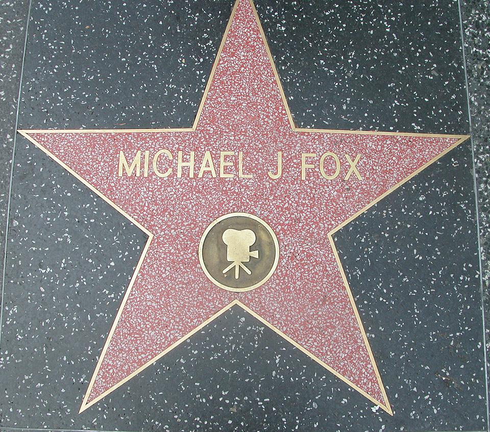 Michael J. Fox's star on the Hollywood Walk of Fame, Los Angeles (California)